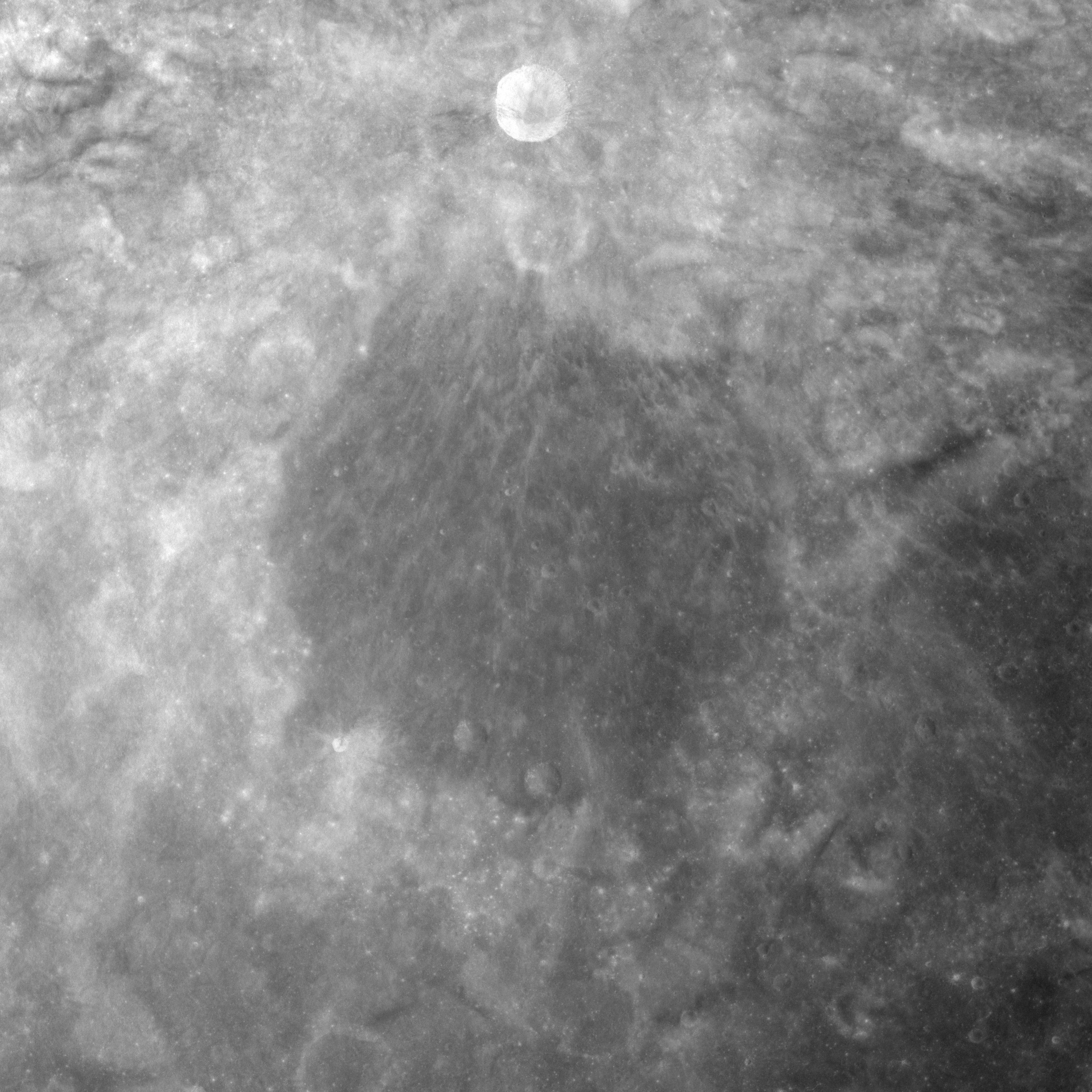 Goddard, on the moon. Small bright crater at top is Goddard A. Camera altitude 162 km, sun elevation 59 deg.